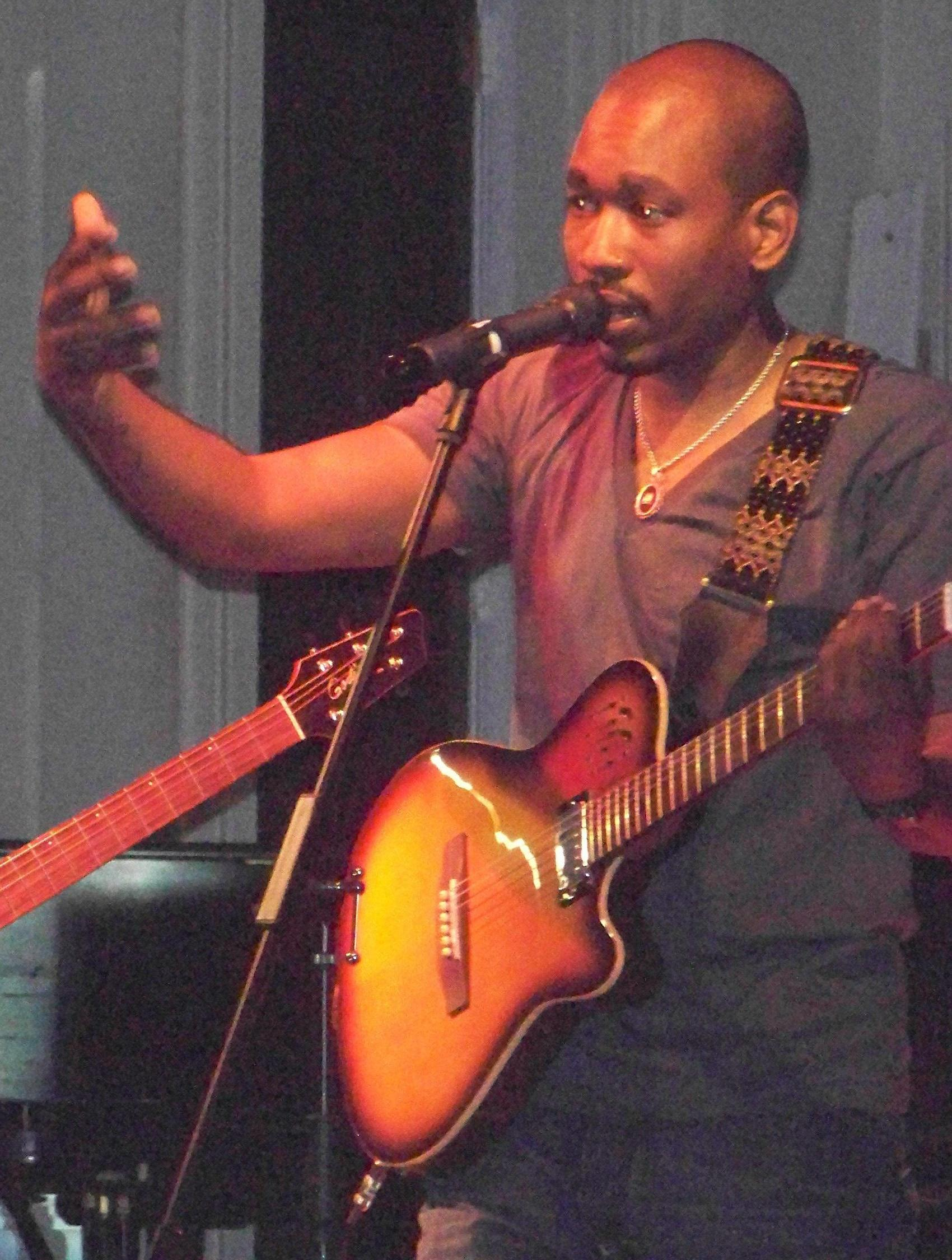 Singer Anthony David in Atlanta, Georgia.